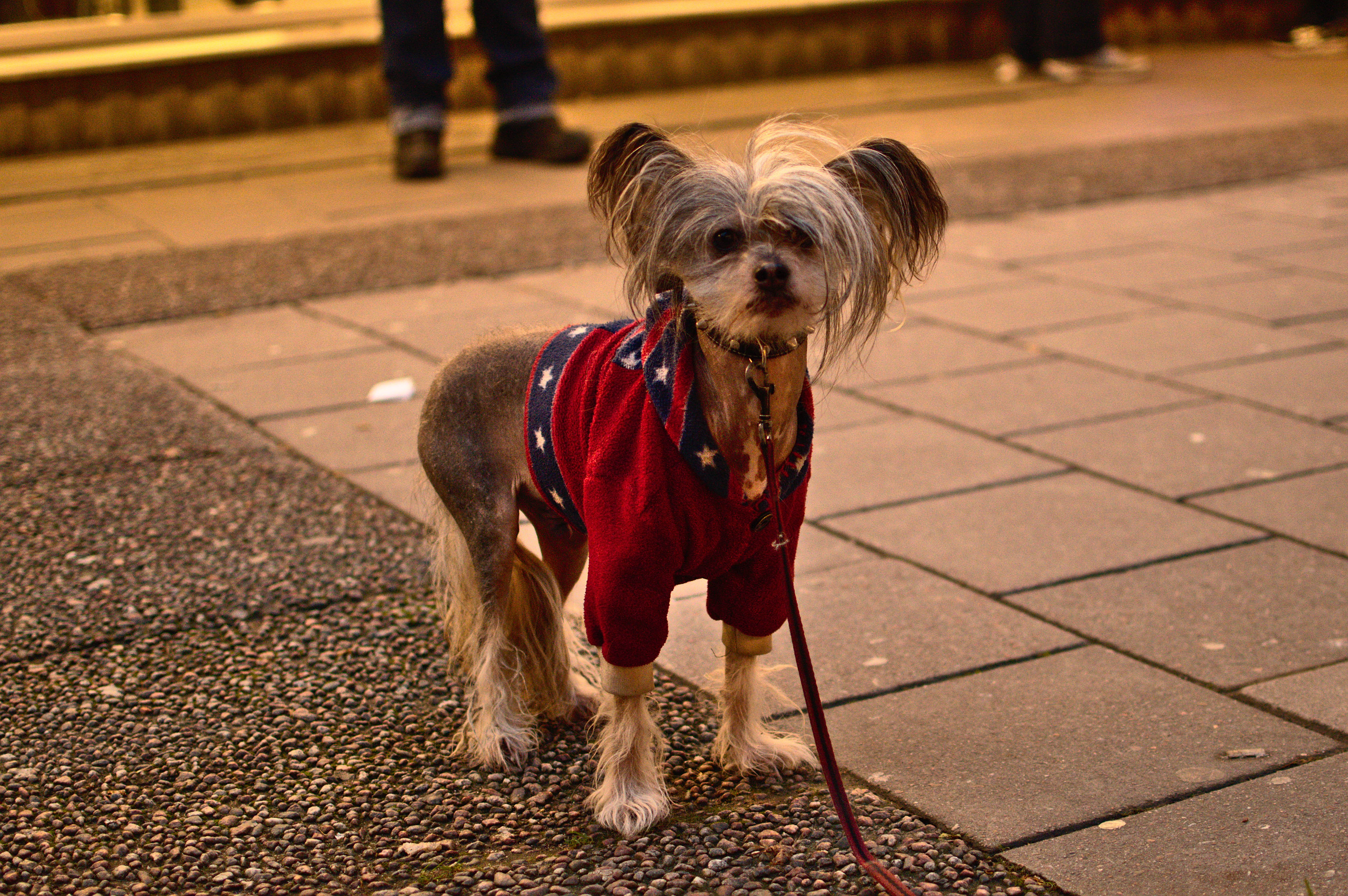 Dog with shirt.